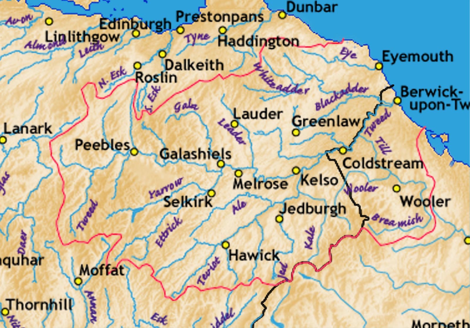 Tributaries of the River Tweed catchment